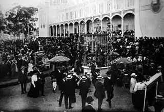 Centenary of the May Revolution, in Argentina